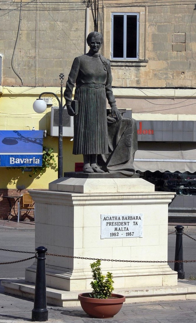 Statue of Agatha Barbara, President of Malta at Ħaż-Żabbar, Malta